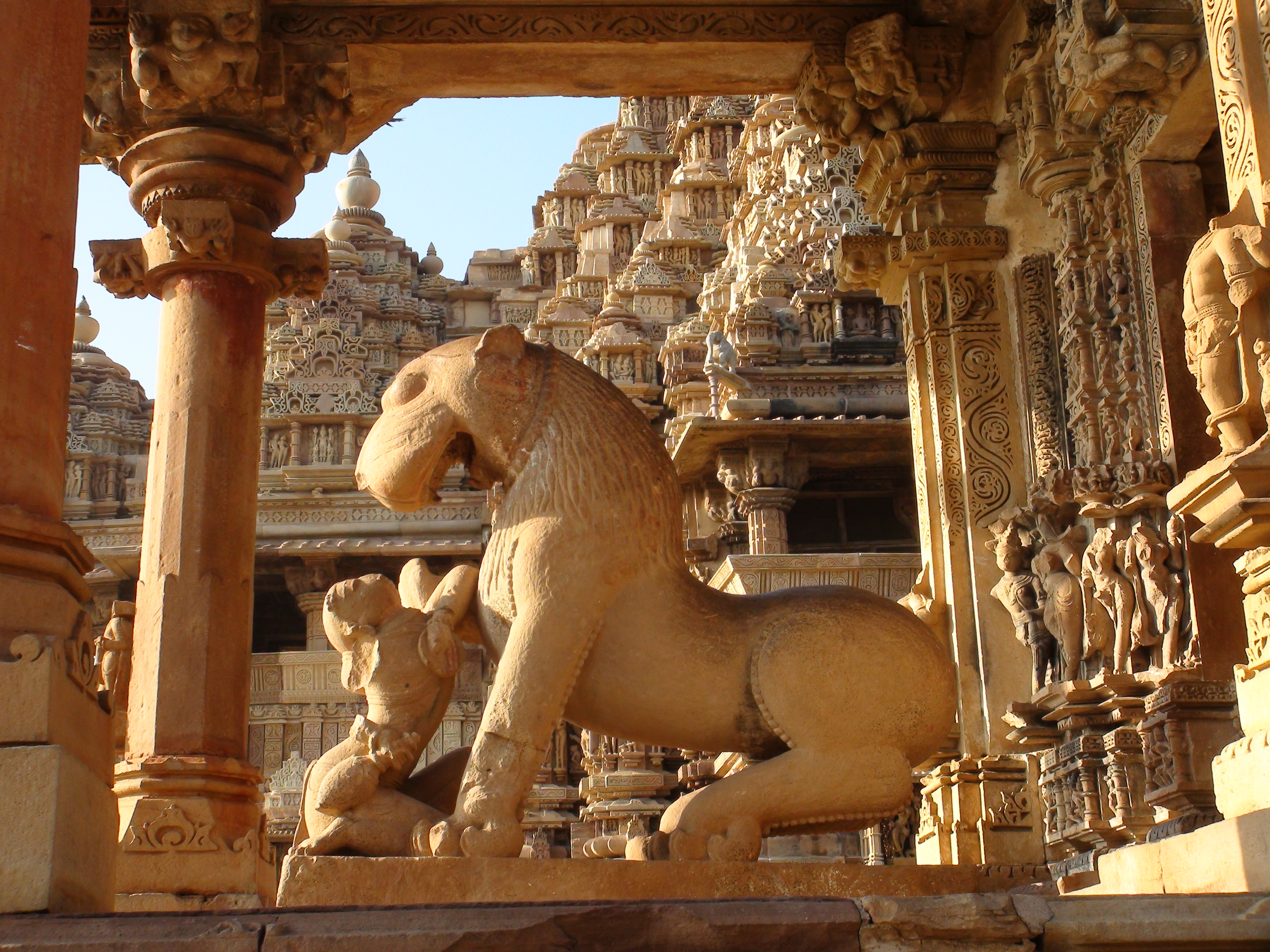 A portion of the Mahadeva Temple at Khajuraho. This temple is a part of the Western Group of Temples. In the background, Kandariya Mahadeo temple is visible as well.